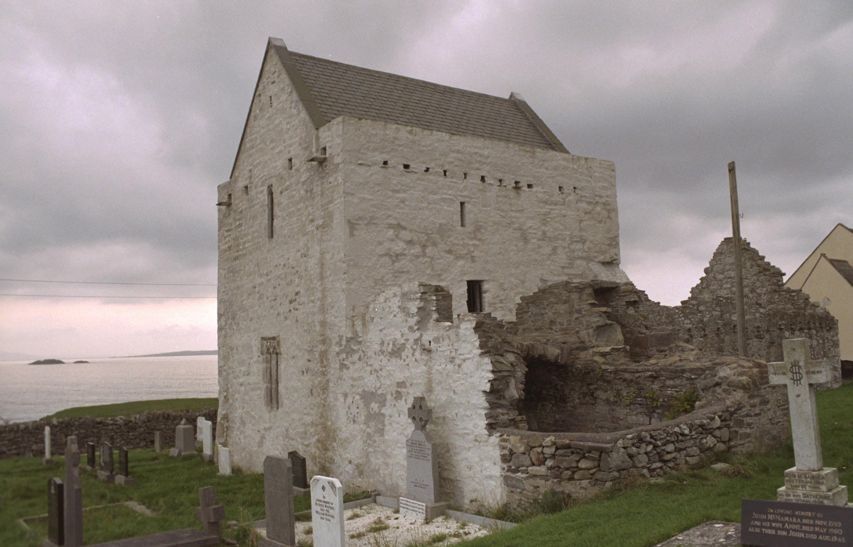 North-east view of the abbey.